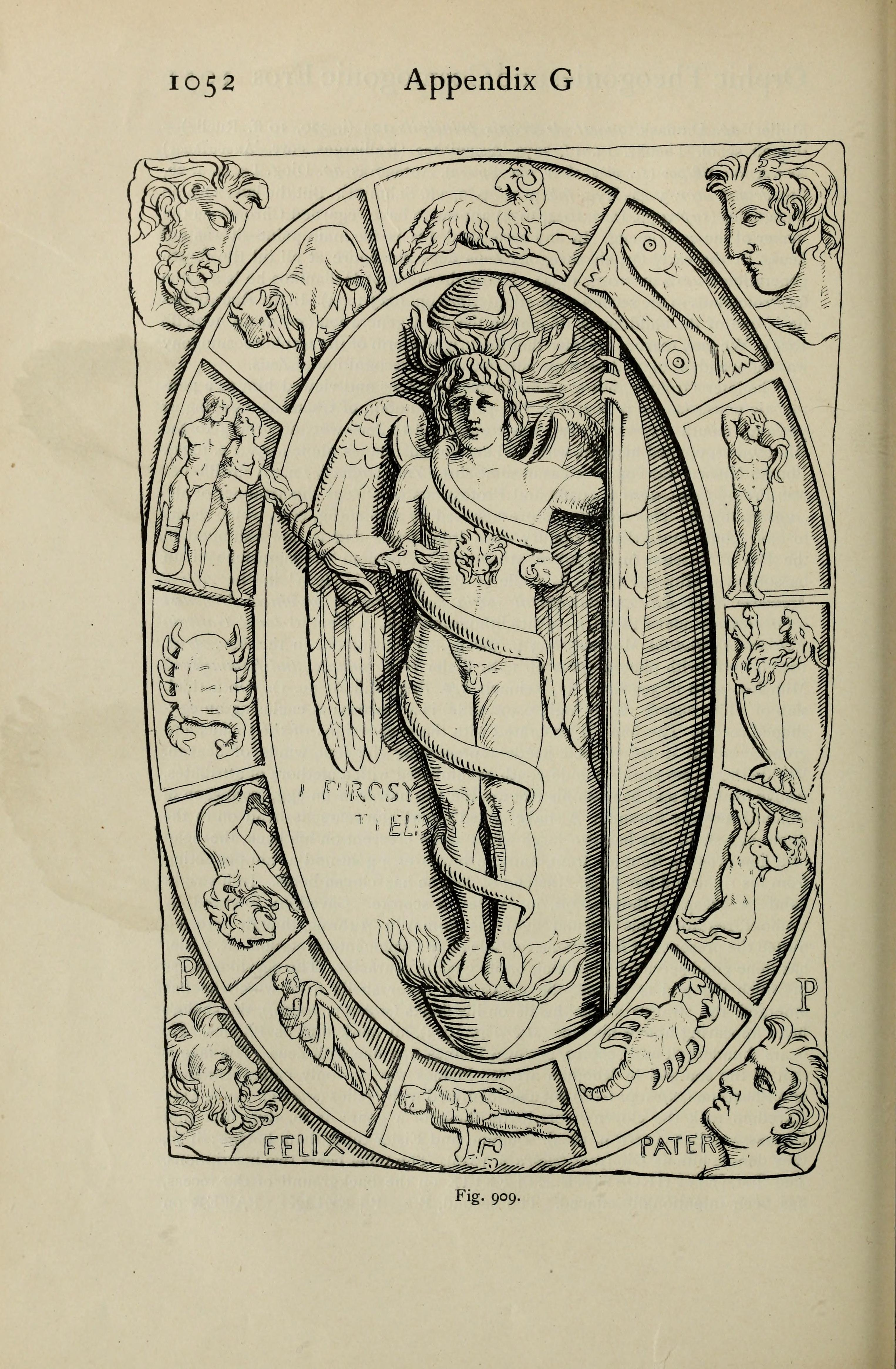 This equation is presupposed by a relief (fig. 909), which seems to have come more than a century since from Rome and is now exhibited in the Royal Museum (no. 2676) at Modena. On a thick slab of white marble (0.71m high, 0.49m wide) is an oval band enclosing an egg-shaped recess. The band is decorated with twelve signs of the zodiac, and grouped about it are winged heads representing the four winds of heaven. Within the recess stands a nude youth encumbered with a plethora of attributes. Above his head and beneath his feet are the two halves of an egg, from each of which flames are bursting. A snake coiled round him rears its head on to the upper egg-shell. He has two large wings and a crescent on his back, the head of a lion growing from his front, and the heads of a goat and a ram projecting from his right and left sides. Instead of feet he has cloven hoofs. In his right hand he grasps a thunderbolt, in his left a sceptre. The egg-like recess in which the god is placed, the upper and lower shells from which he has emerged, the strange animal-heads on his flanks, the snake's head appearing above his face, all mark him as Phanes.